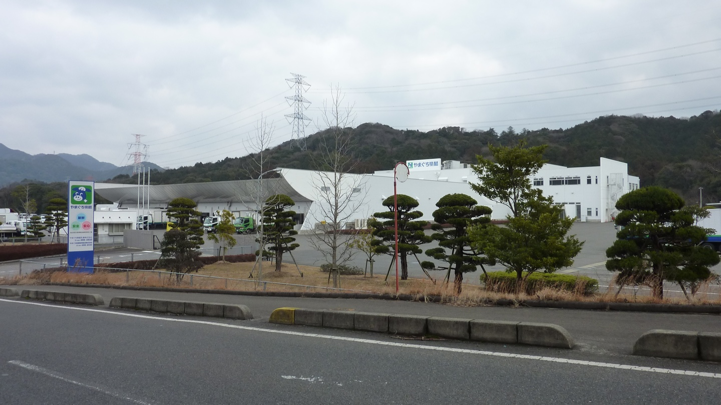 The Yamaguchi Kenraku Milk Industry (Kikugawa-cho, Shimonoseki City, Yamaguchi Prefecture, Japan)